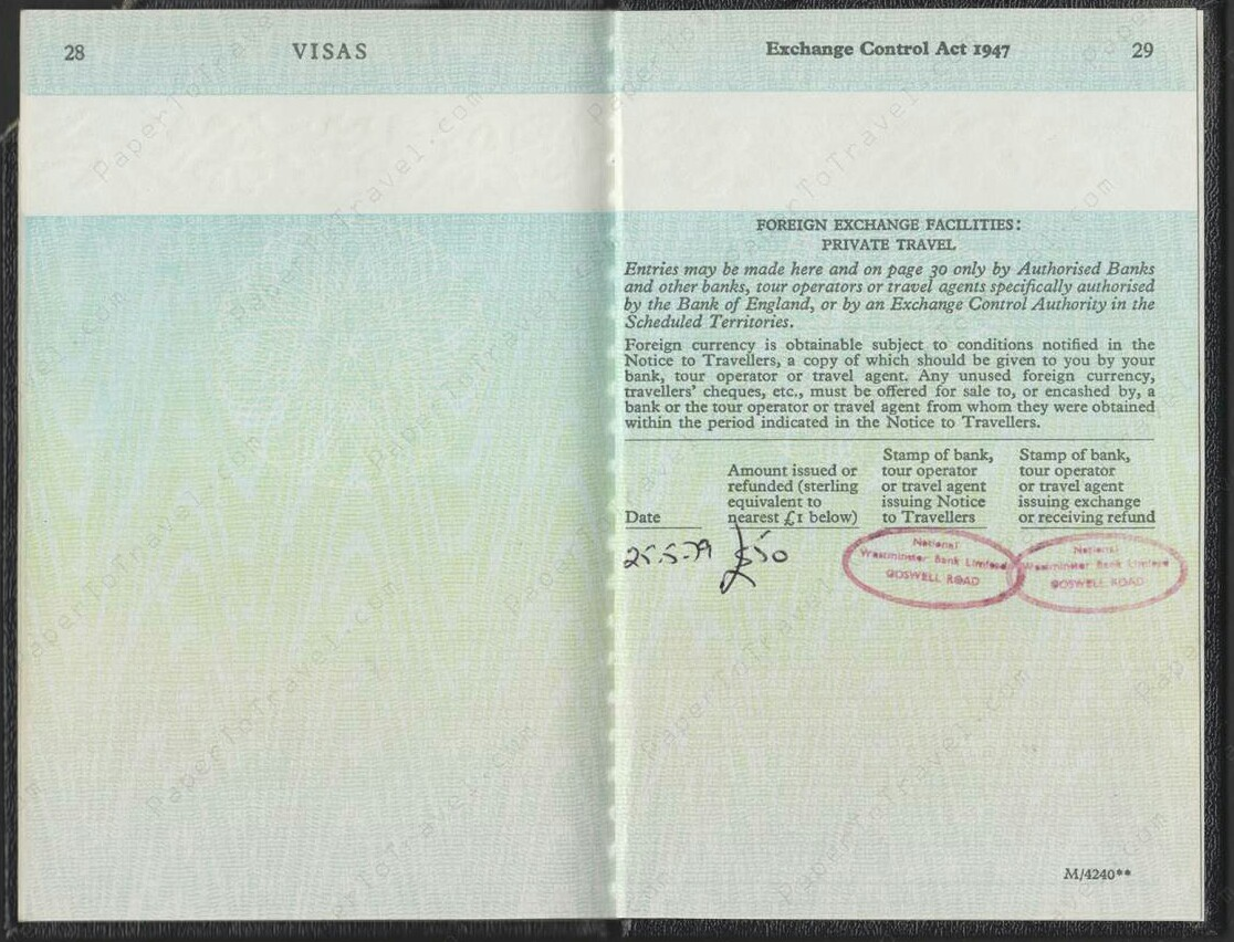 British Passport 1978, Foreign Exchange Facilities, Private Travel page with 'Exchange Control Act 1947' notation